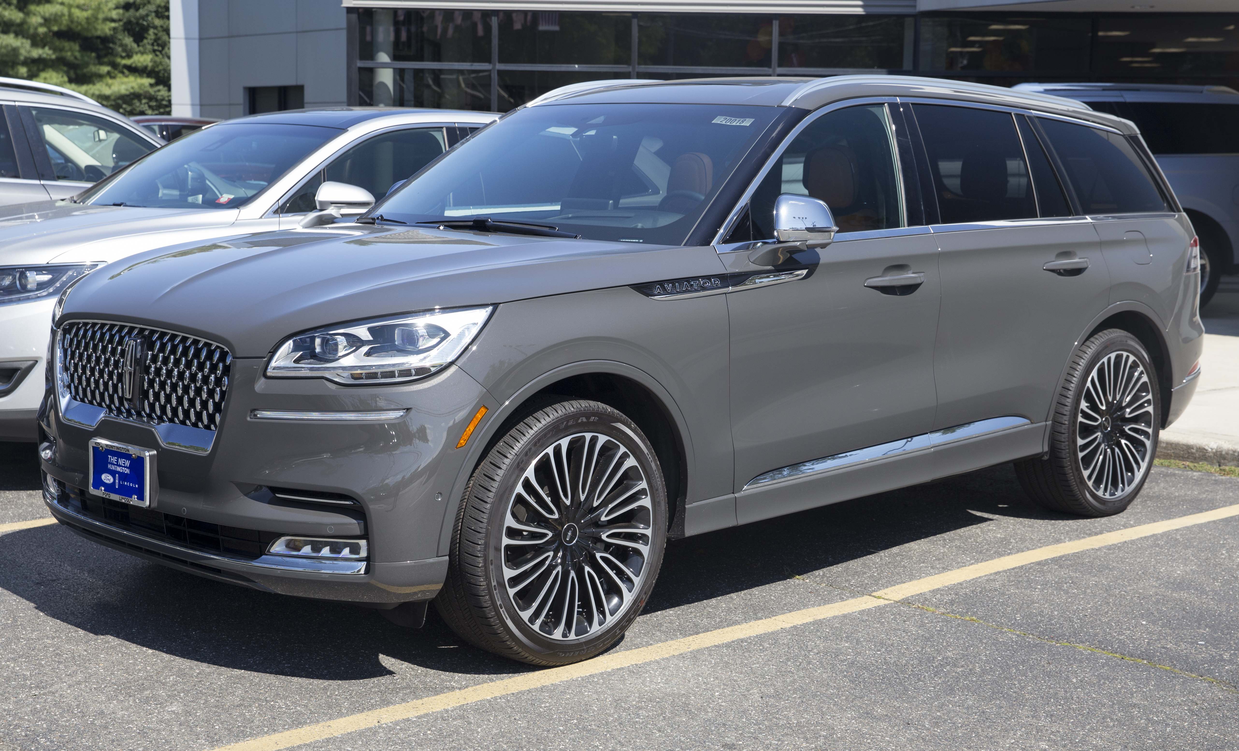 2020 Lincoln Aviator Black Label in Chroma Caviar Dark Grey with Ebony interior. AWD, 10-speed auto, 3-litre V6 engine.